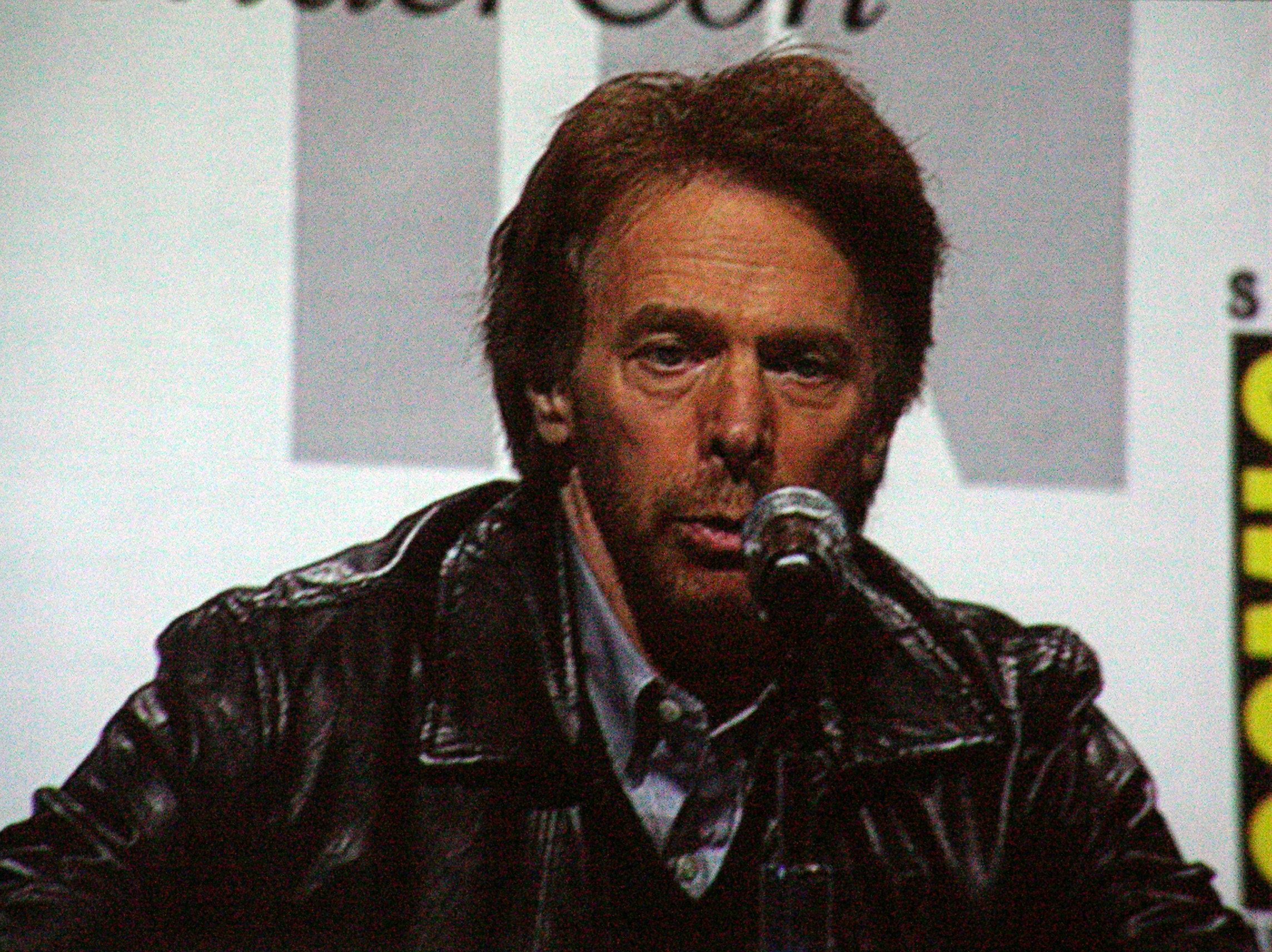 Producer Jerry Bruckheimer discusses Prince of Persia: The Sands of Time, at a panel promoting the film at WonderCon 2010.